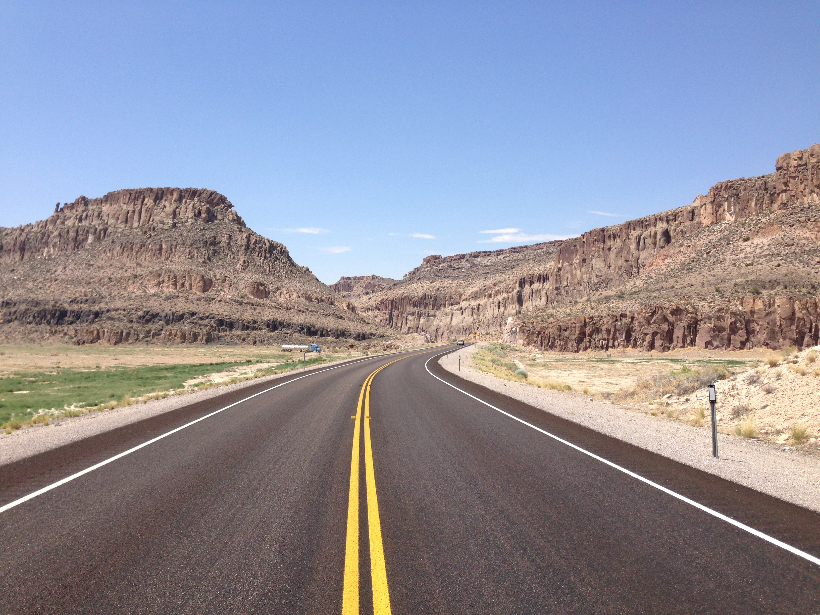 View south along Nevada State Route 318 about 27.2 miles north of U.S. Route 93 in the White River Narrows, Nevada